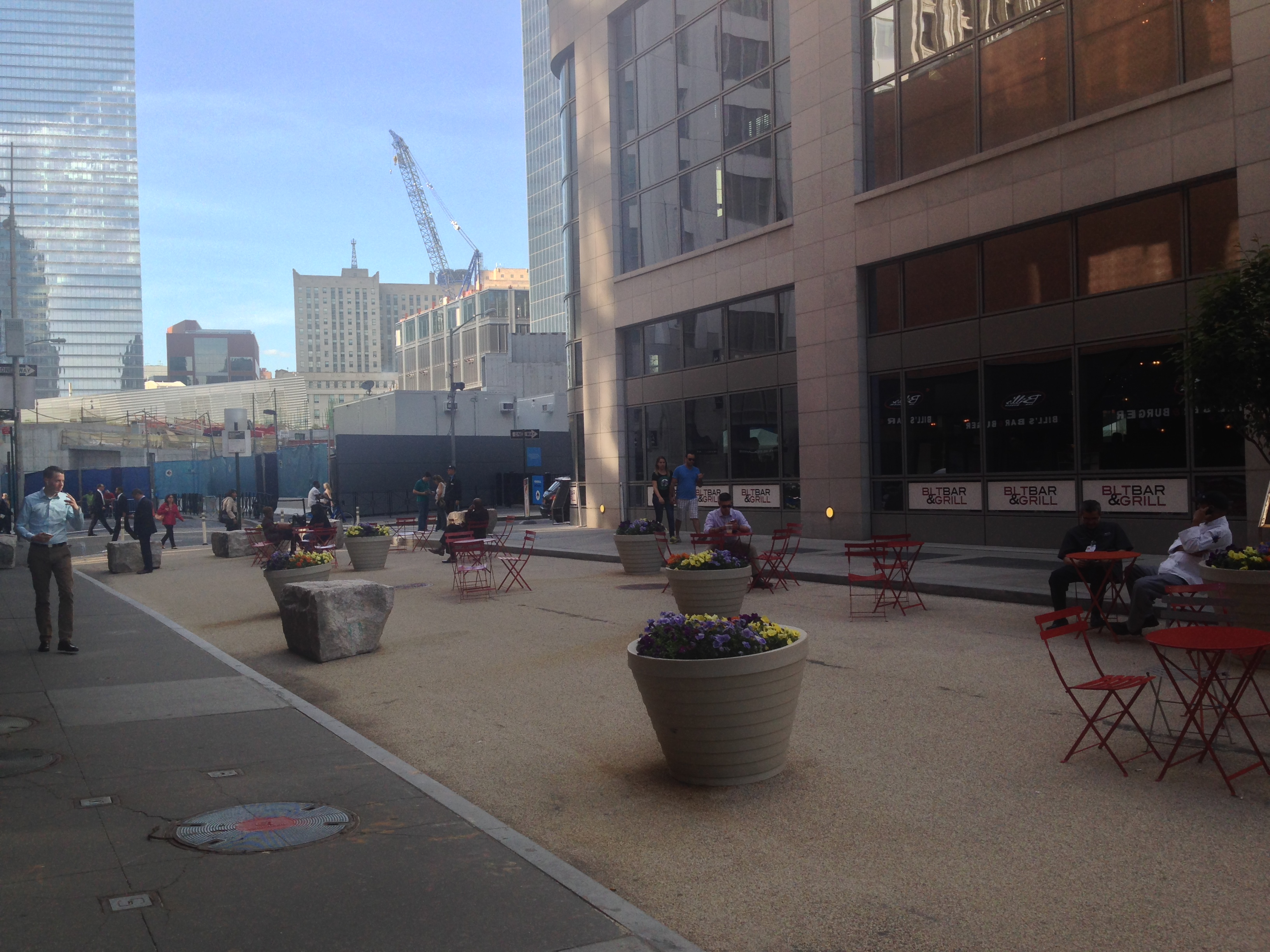 Picture of Washington Street Plaza at Carlisle and Albany Streets in Lower Manhattan